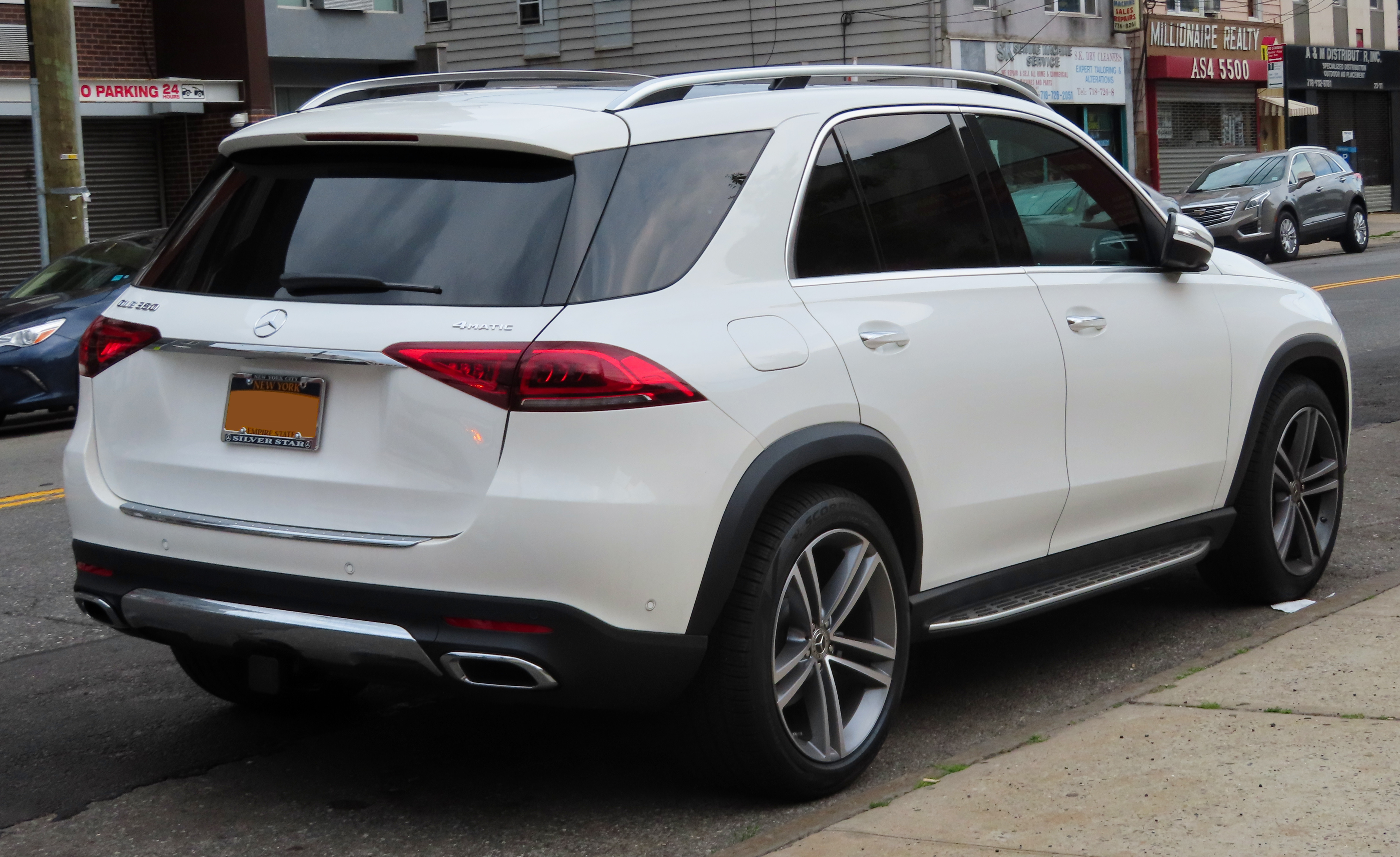 A 2020 Mercedes-Benz GLE 350 photographed in Astoria, Queens, New York, USA